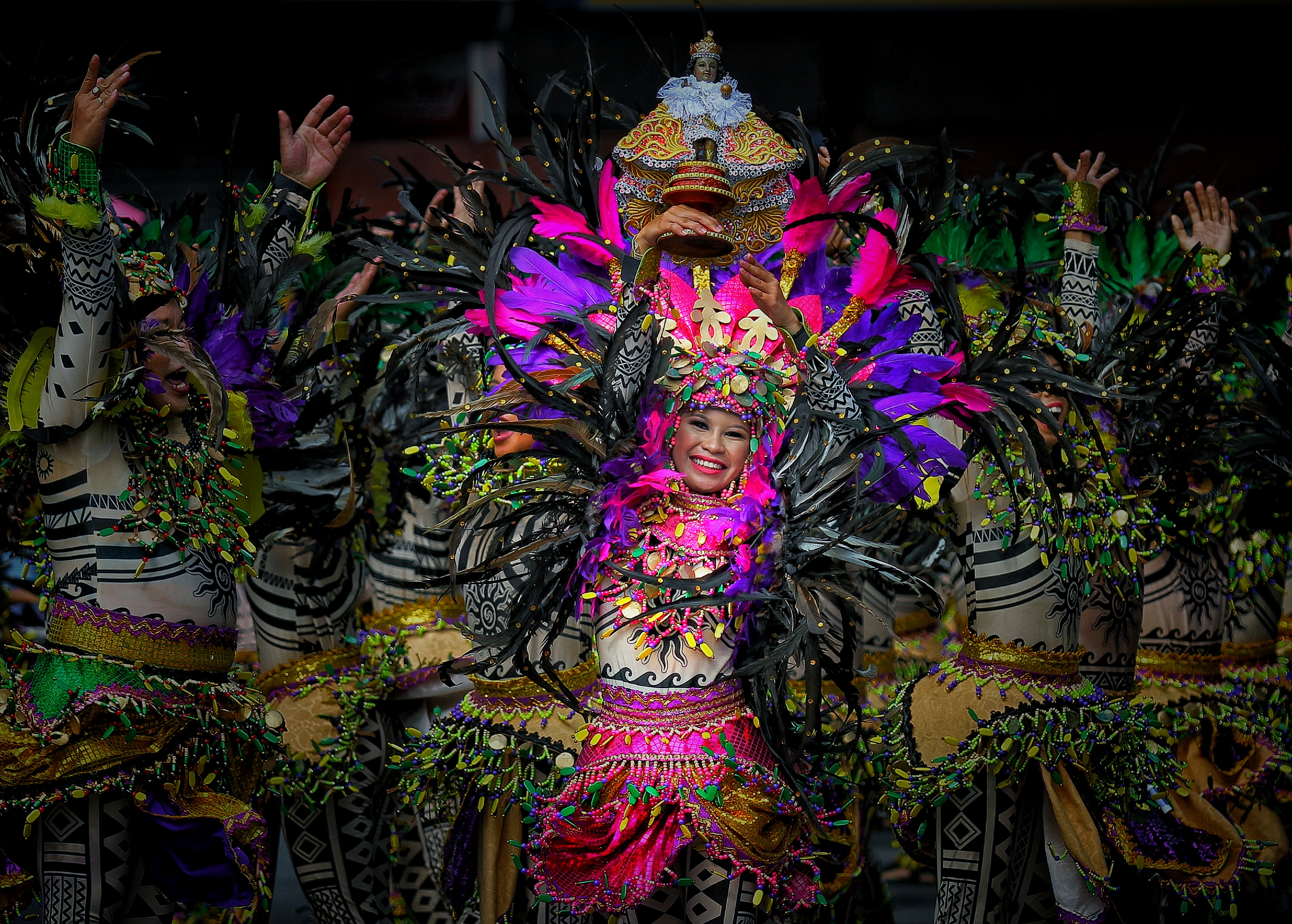 The Holy Child Jesus, locally known as Santo Niño, is among the most venerated and recognizable religious image in the Philippines. This is because the image does not only show the faithfulness of Catholics to their religion, but also reminds Filipino of the birth of Christianity in the country. This photo has been taken in the country: Philippines